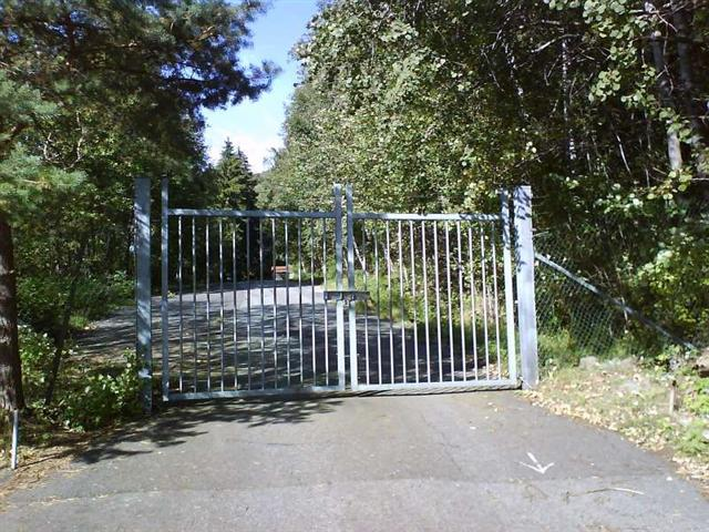 W2 Svalan LFC stril m/50